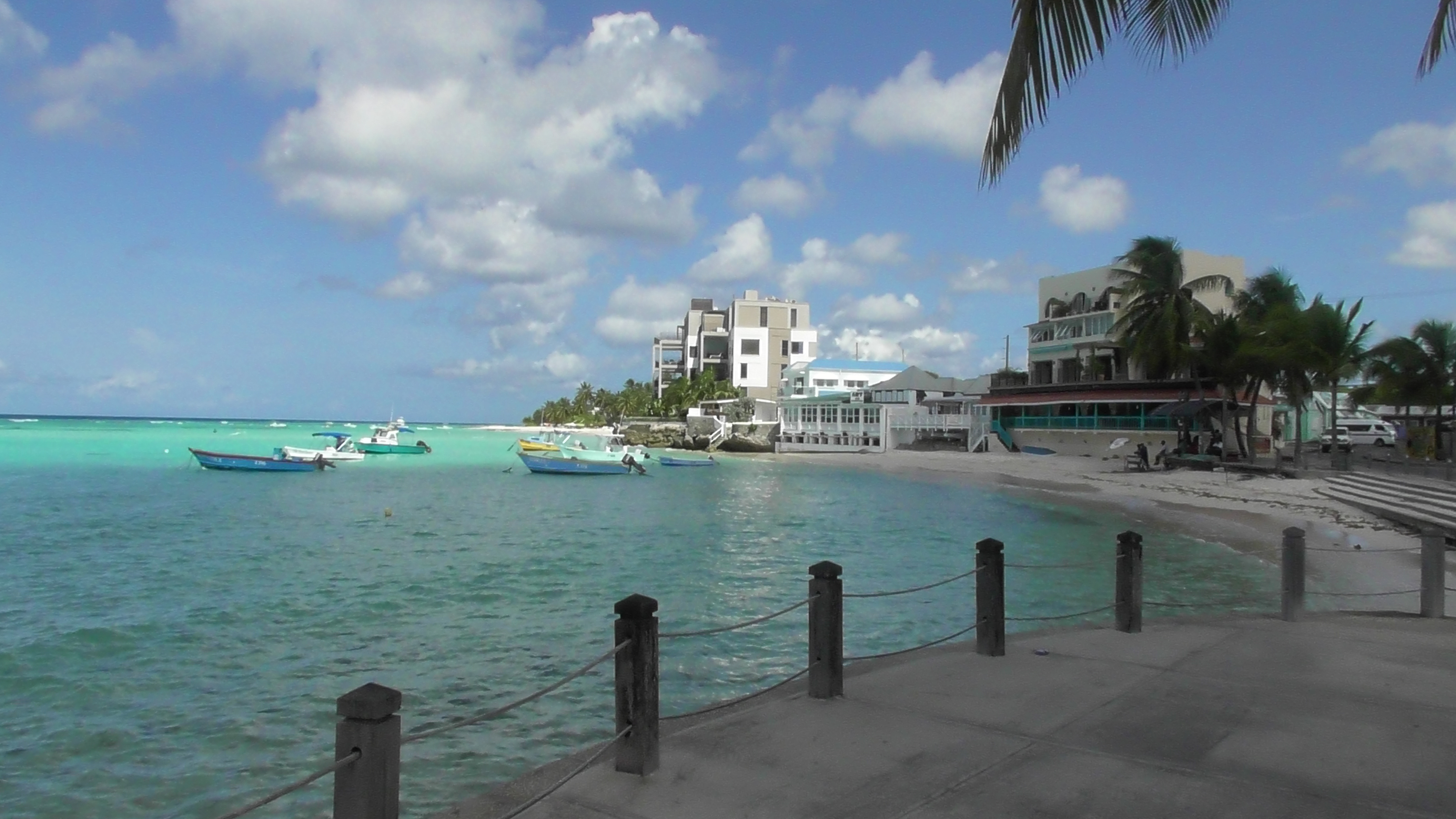 Small cove St. Lawrence Gap, Barbados. Taken on the morning of Friday the 9th of September 2016 (the time on the metadata is set at British Summer Time, not local time).